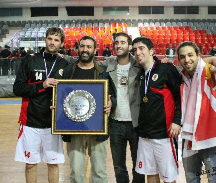 Basketball-team-3rdplace